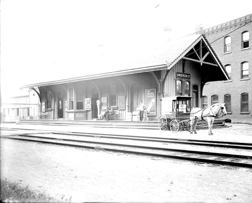 The Anderson Street station facing northward towards the station building.